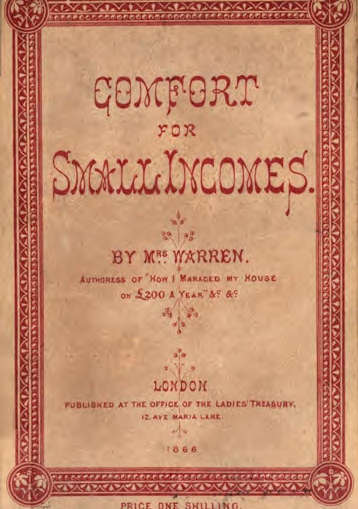 Cover of book by Eliza Warren, 1866